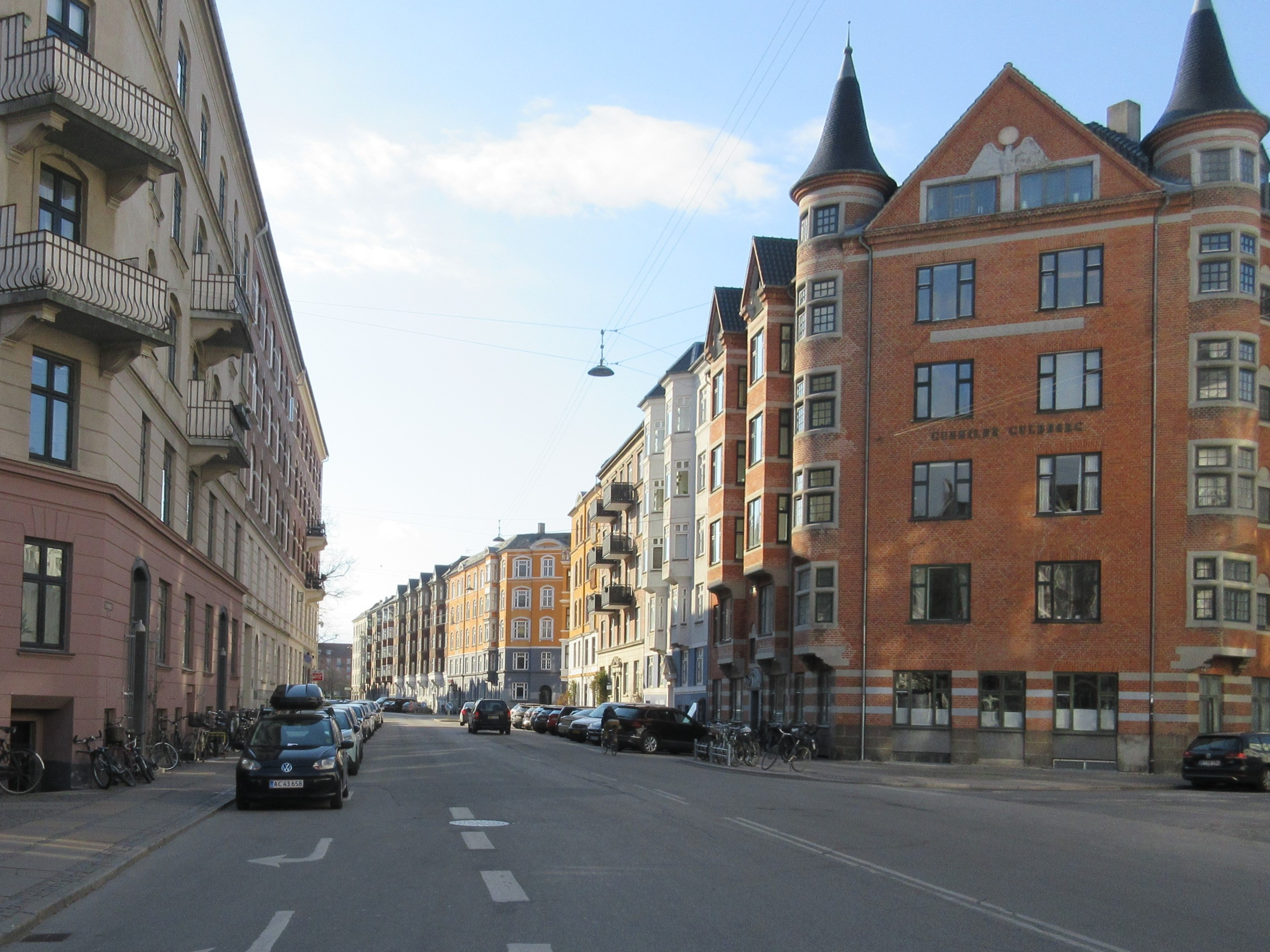 Ny Caræsberg Vej seen from the corner with Flensborggade in Copenhagen, Denmark